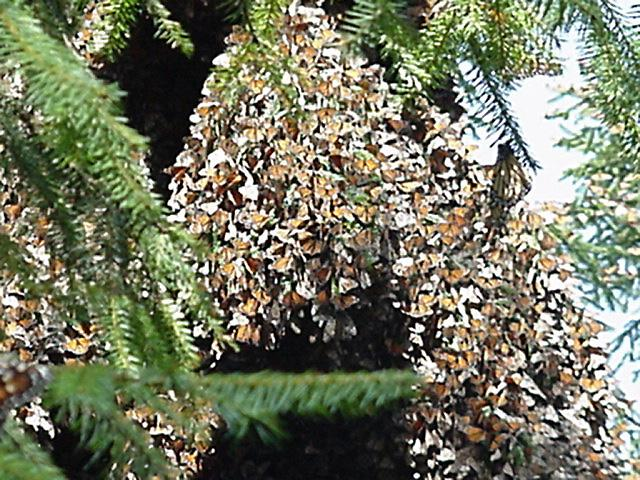 Monarchs (Danaus plexippus) overwintering in Oyamel Fir Trees at the Angangueo overwintering site in Mexico. (author/photographer - Barbara Page. source - personal visit to the Angangueo preserve in 2000.)